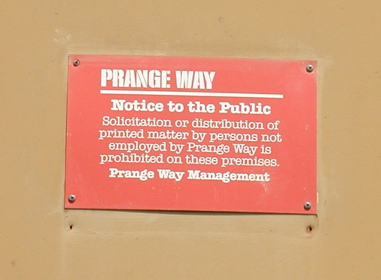 I took this snapshot right before they remodeled the building into a movie theater. I spent much time as a kid window shopping in this store.